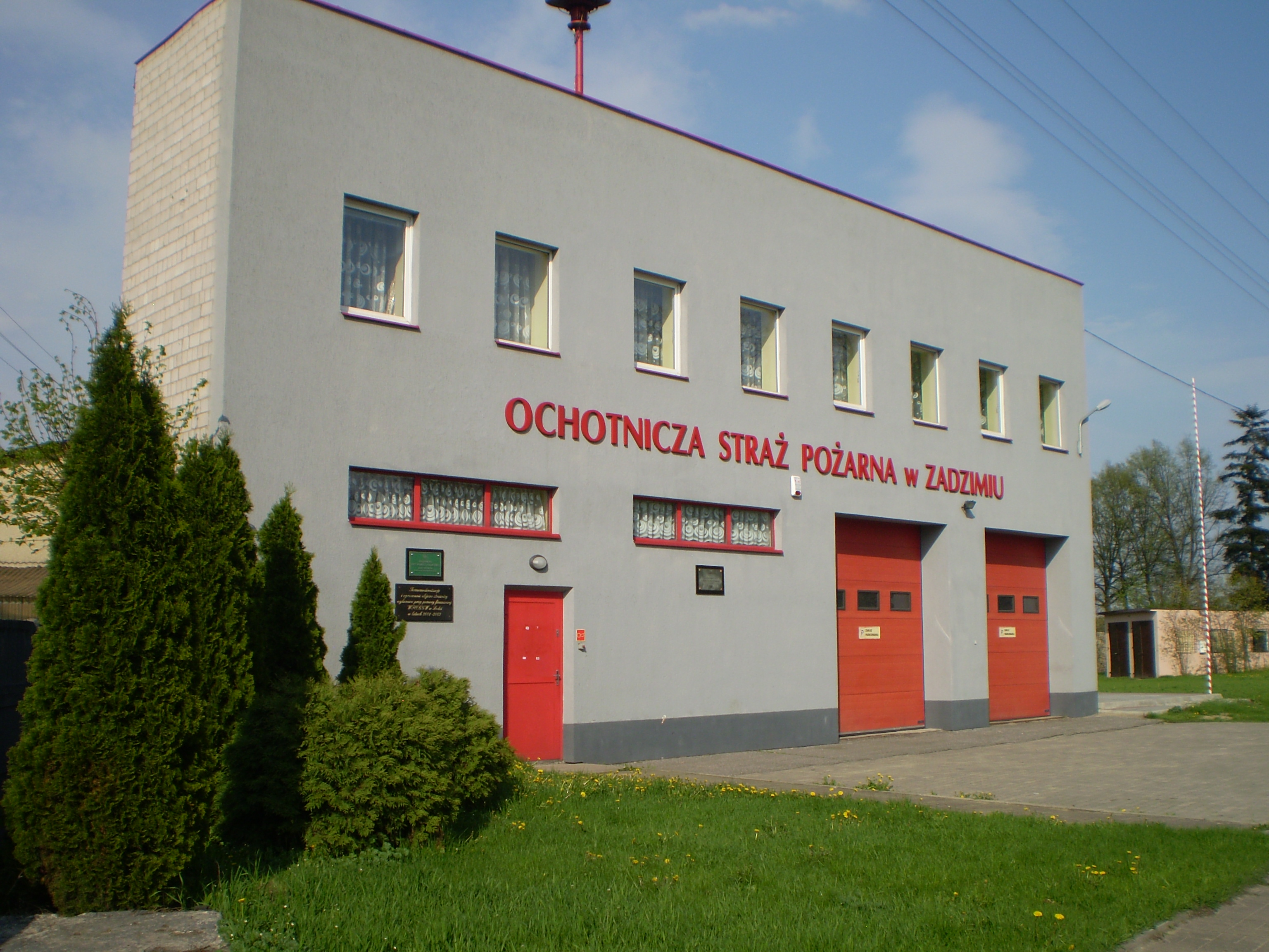 Zadzim